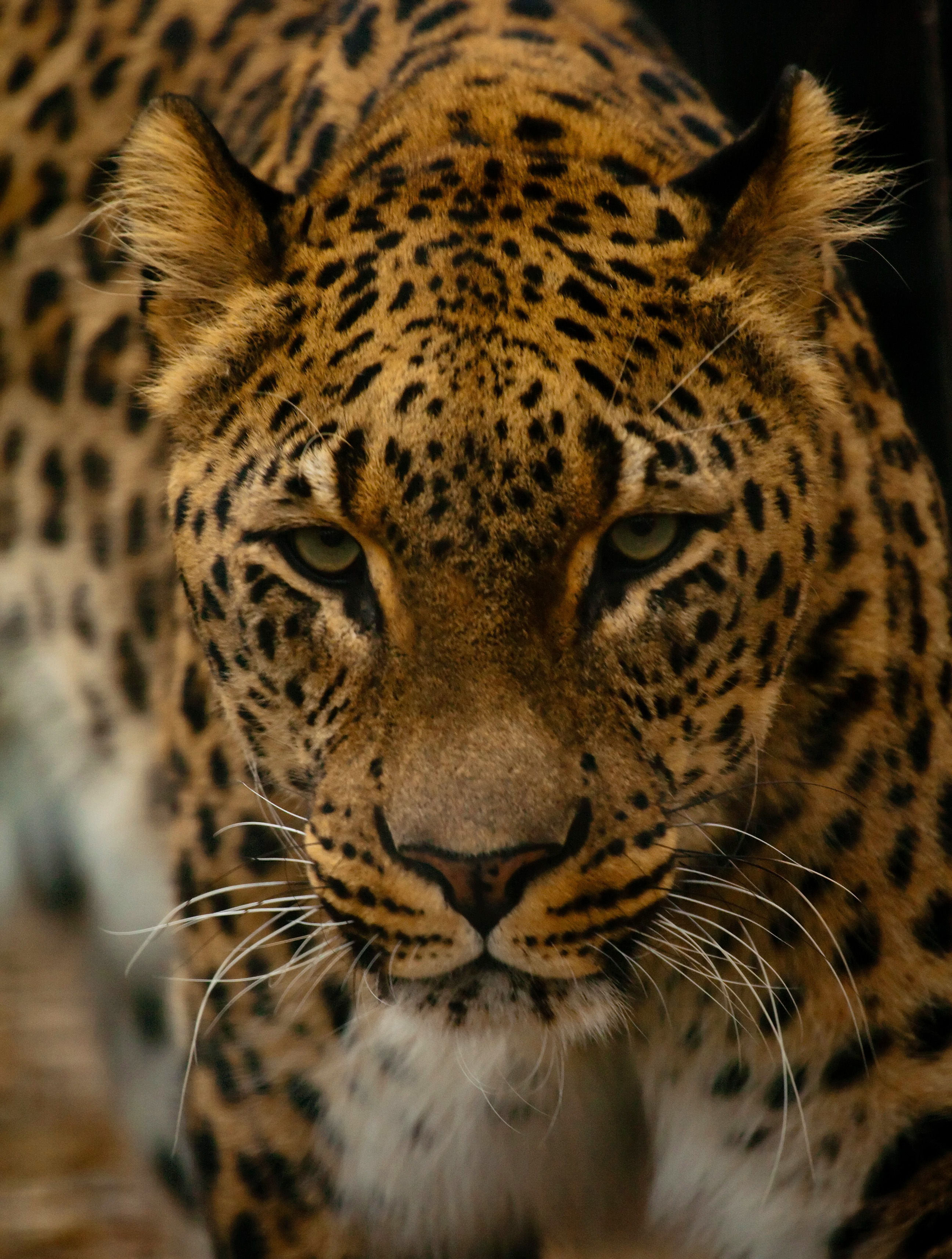 For Thanksgiving we took a road trip to the Cleveland Zoo - finally have gotten around to processing some of the pics This is the 2nd set of seven shots